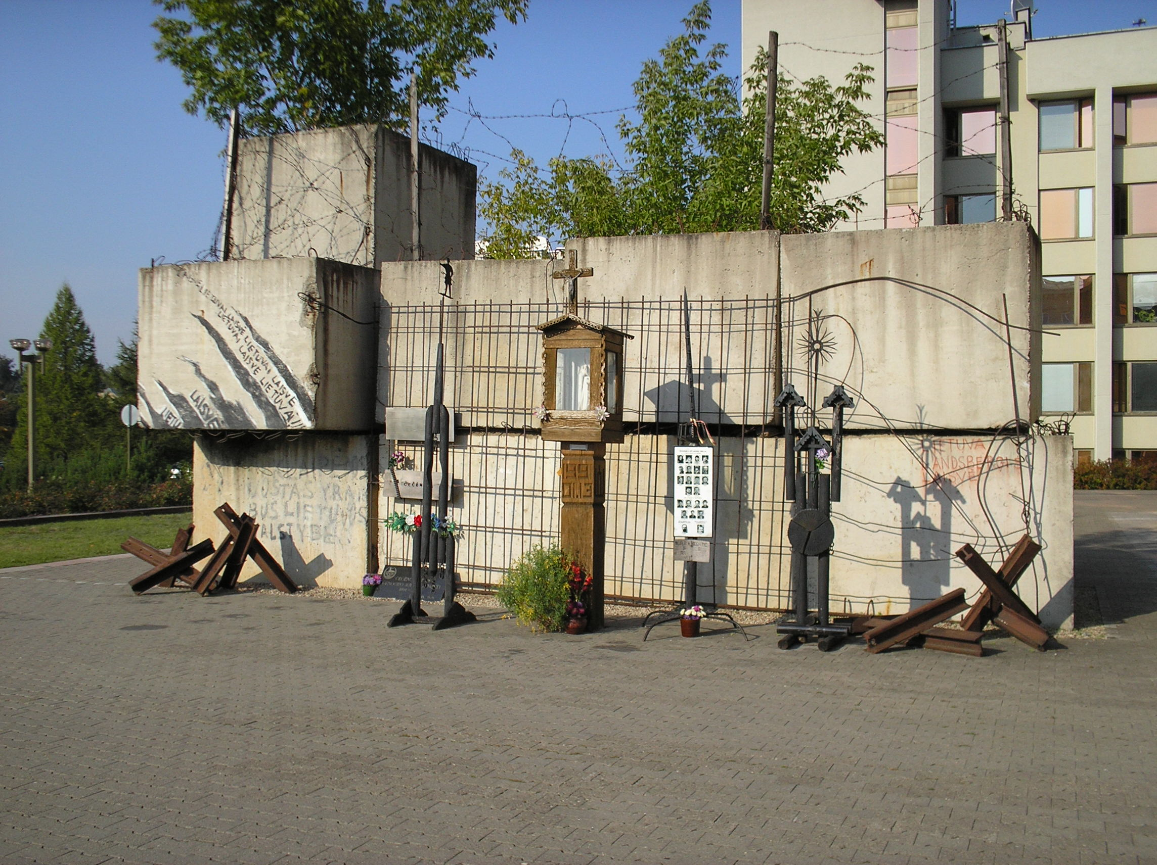 Memorial to protestors